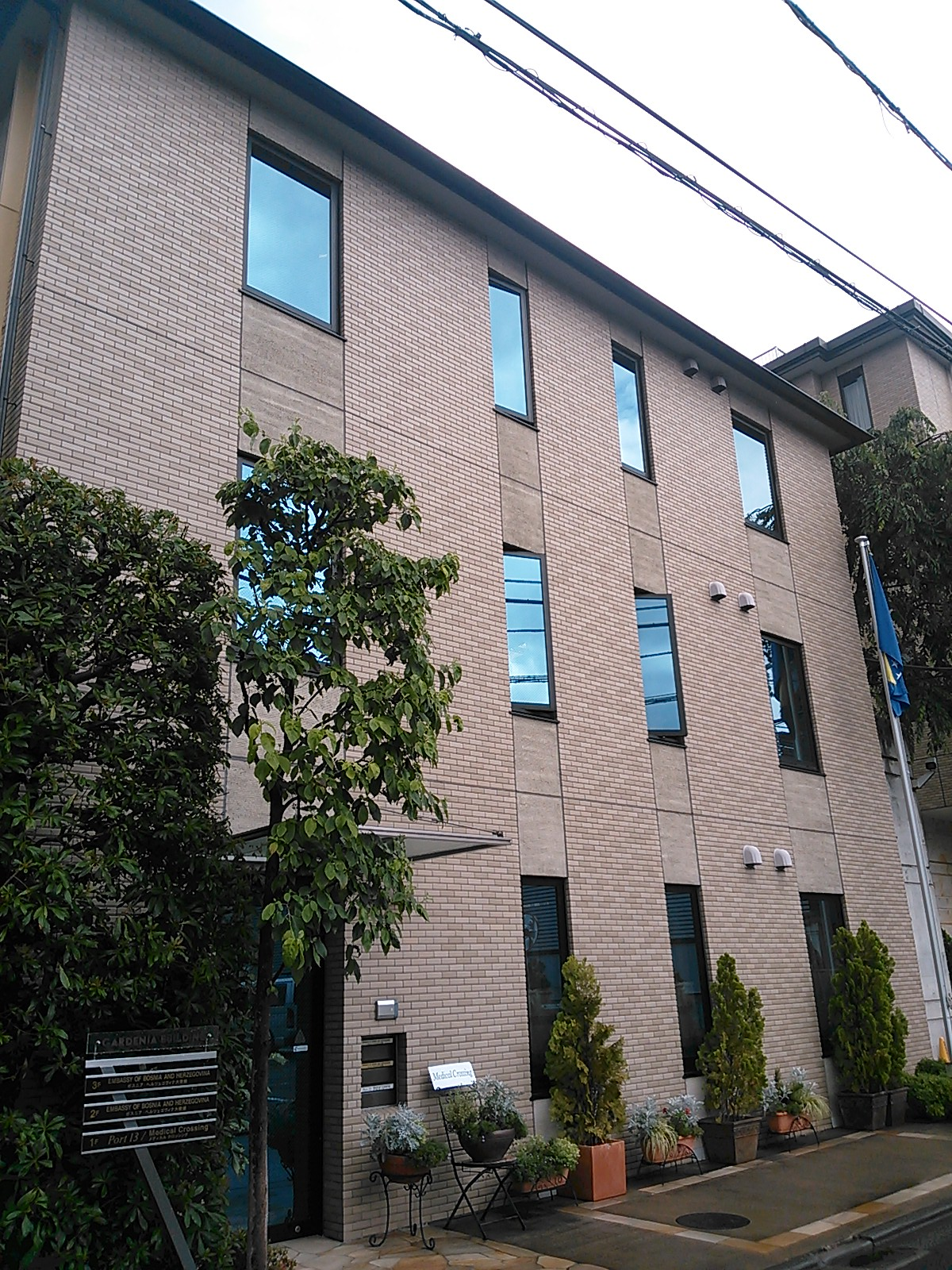 Embassy of Bosnia and Herzegovina in Tokyo Srpskohrvatski / српскохрватски: Ambasade Bosne i Hercegovine u Japanu